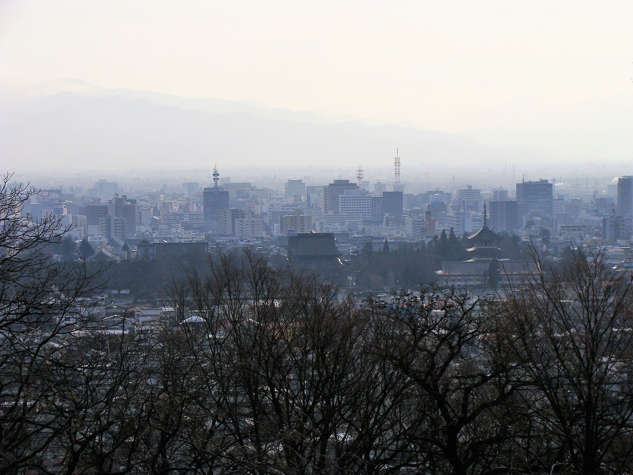 Skyline of NaganoCity from Unjoden